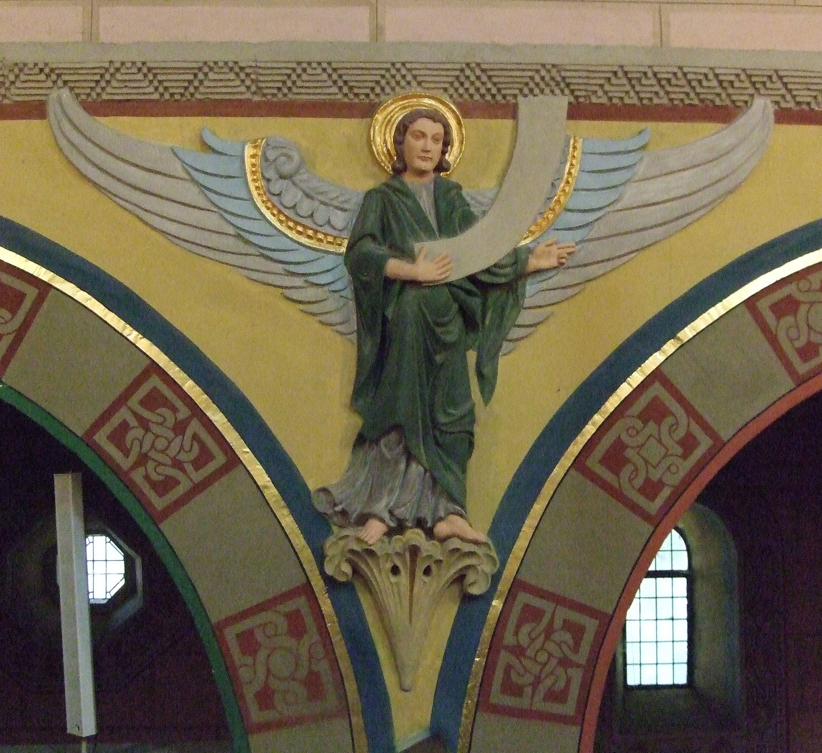 Monastic church Hecklingen, Sachsen-Anhalt, Germany. One of the 14 stucco angels in the central nave